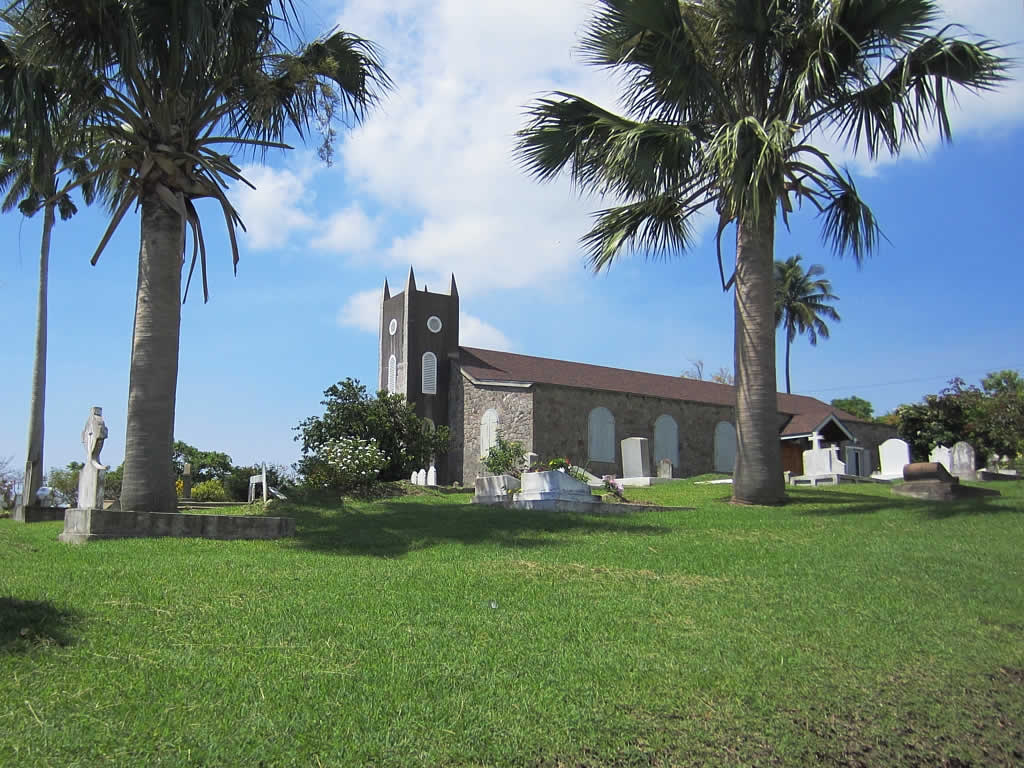 St. Peter's Anglican Church, Montserrat, Caribbean Islands